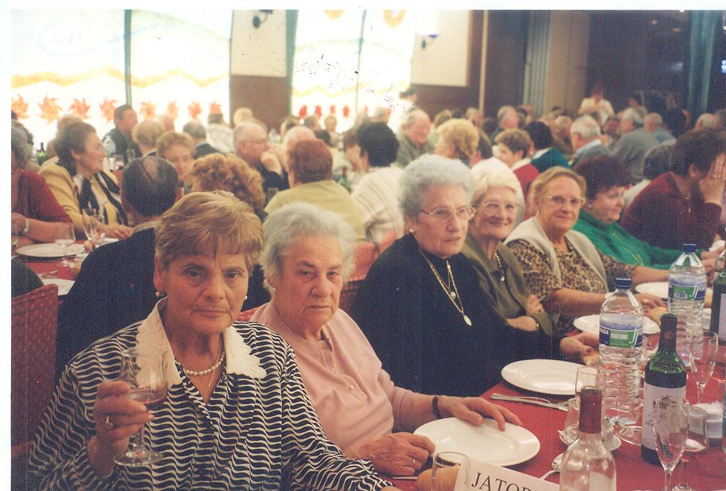 Old people eating